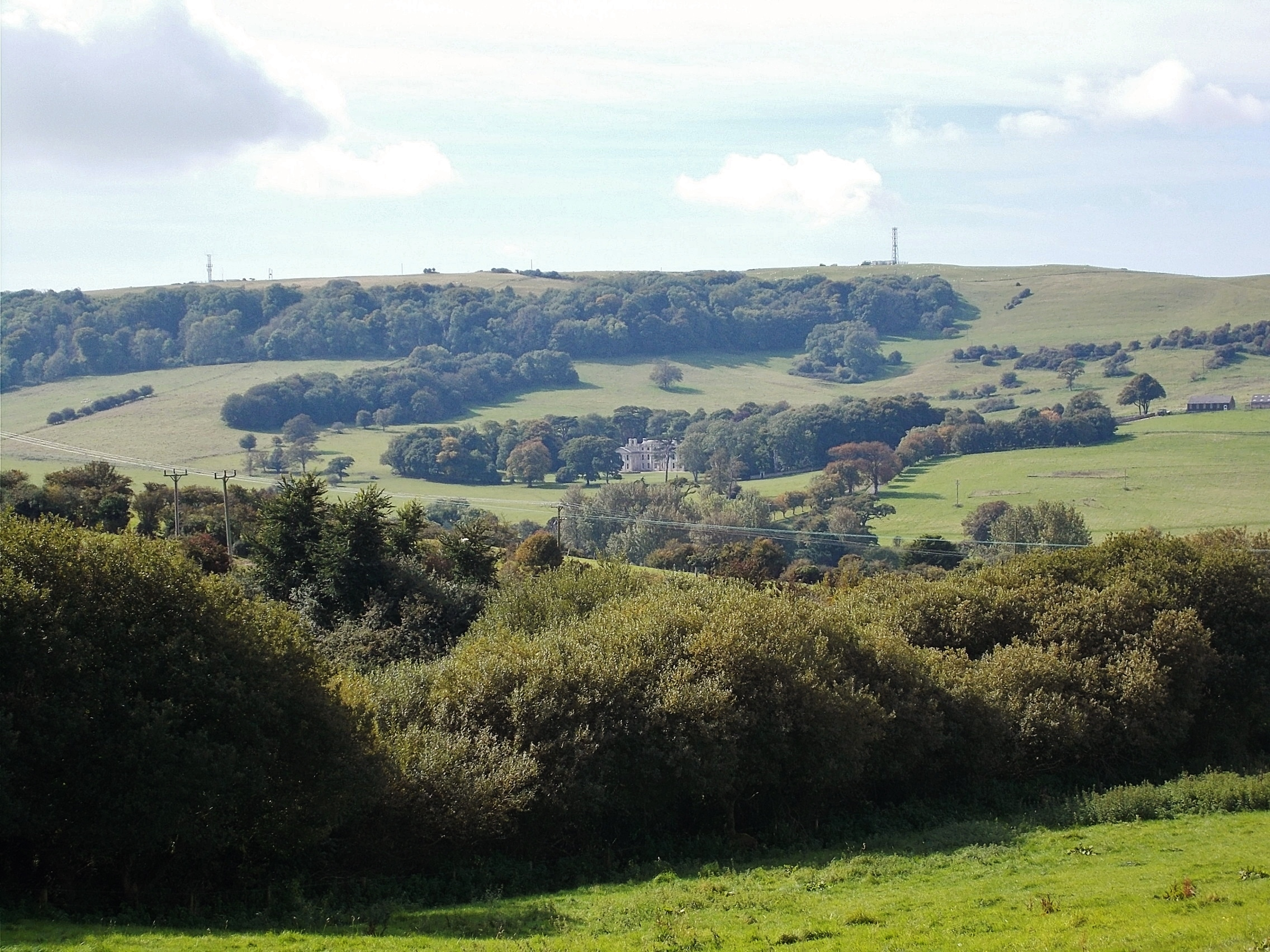 Appuldurcombe House, near Wroxall, Isle of Wight, UK, set within the south Wight countryside. The house is at the exact centre of the picture.